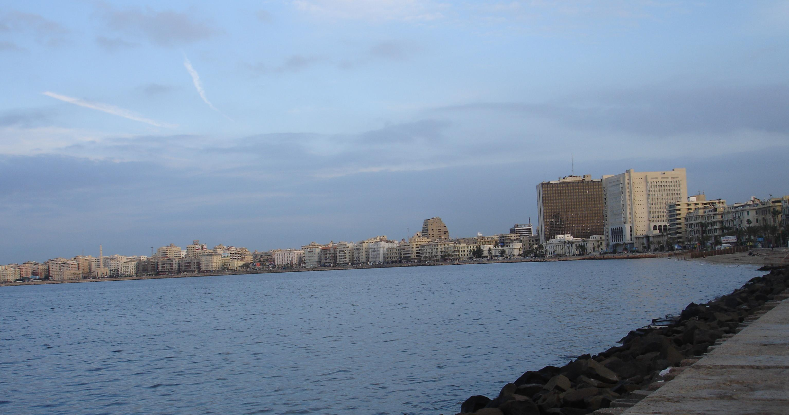 Alexandria-Egypt. A view from 'bahary' showing 'mansheya' and Raml Station.